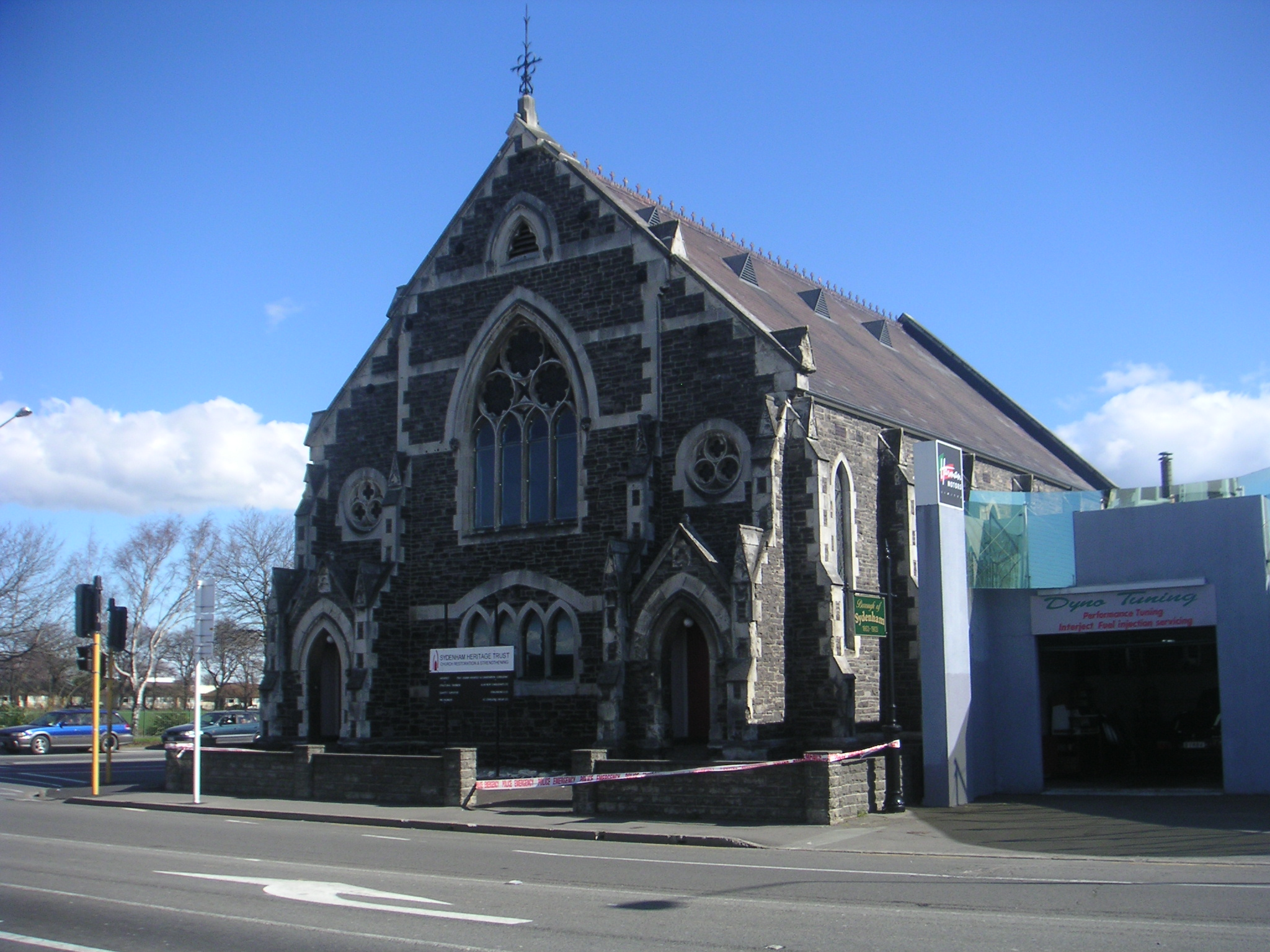 This beautiful heritage church on Colombo Street was under restoration before the quake. Not sure its condition but looks better than expected.